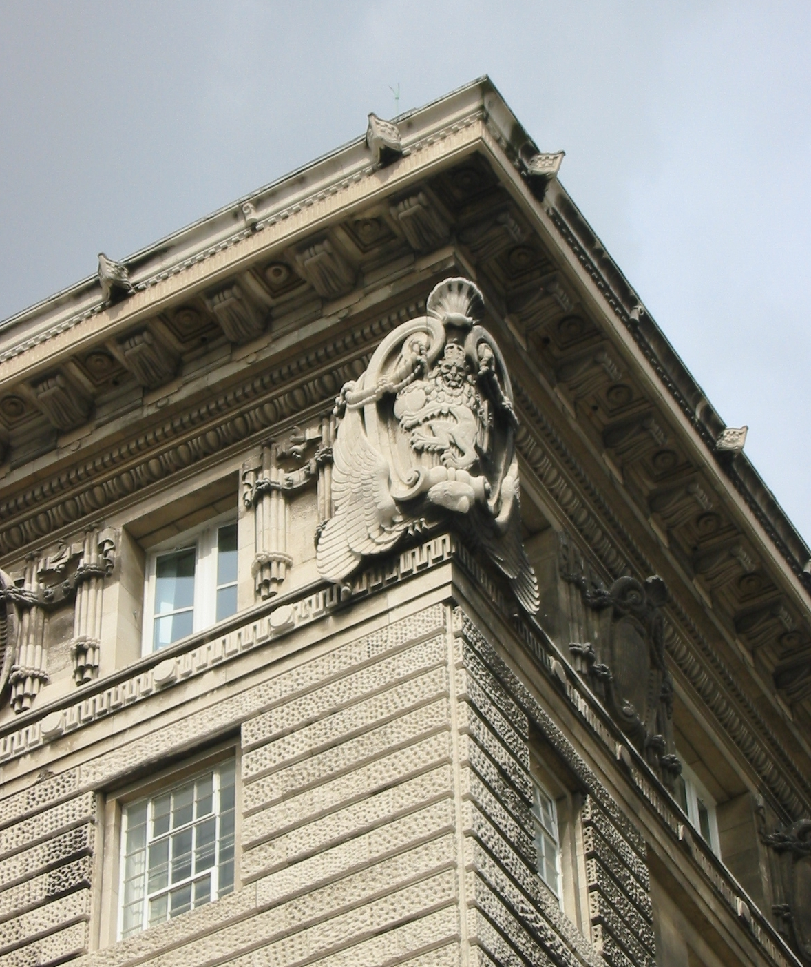 Nrf: Liverpool